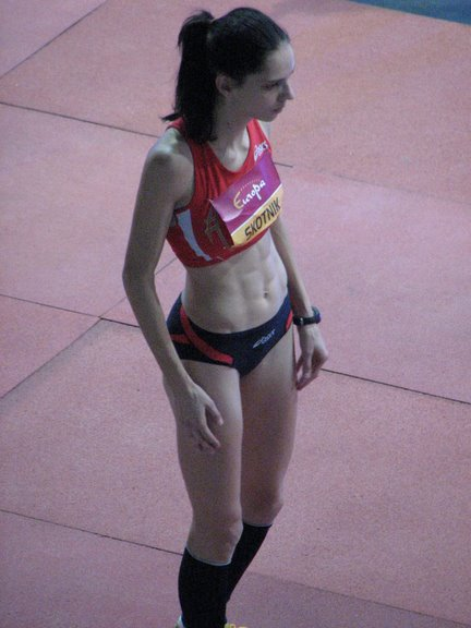 melanie skotnik @ sc high jump banska bystrica 11.2.2009